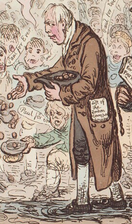 detail from 'Triumphal procession of little-Paul-the taylor upon his new-goose', by James Gillray, published 8 November 1806, National Portrait Gallery, NPG D12881. William Bosville (1745–1813) leading a campaigning procession for his candidate James Paull (1770-1808) at the November 1806 Election for the seat of Westminster. Depicted as "a shambling elderly man scattering coins from his hat; in a speech bubble above he says: "There's a Penny apiece, for you Lads! & now Hollo out - "Paul forever!" and then I'll give each of you a Ride, in my Coach & Four! - Hollo boys!!" In his pocket is a 'List of the London Correspo[nding] Society'". (description from